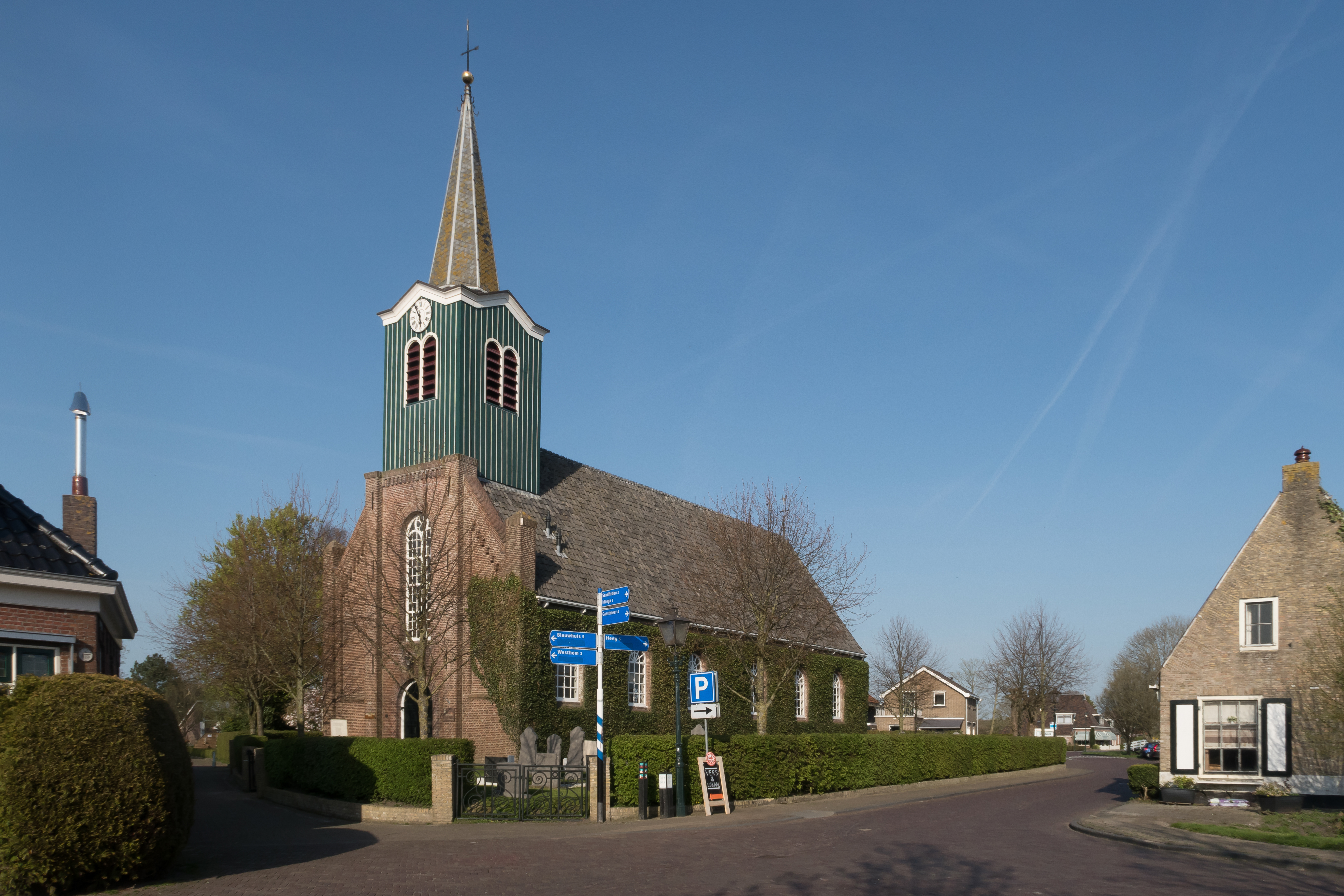 Oudega, reformed church (de Ankertsjerke)